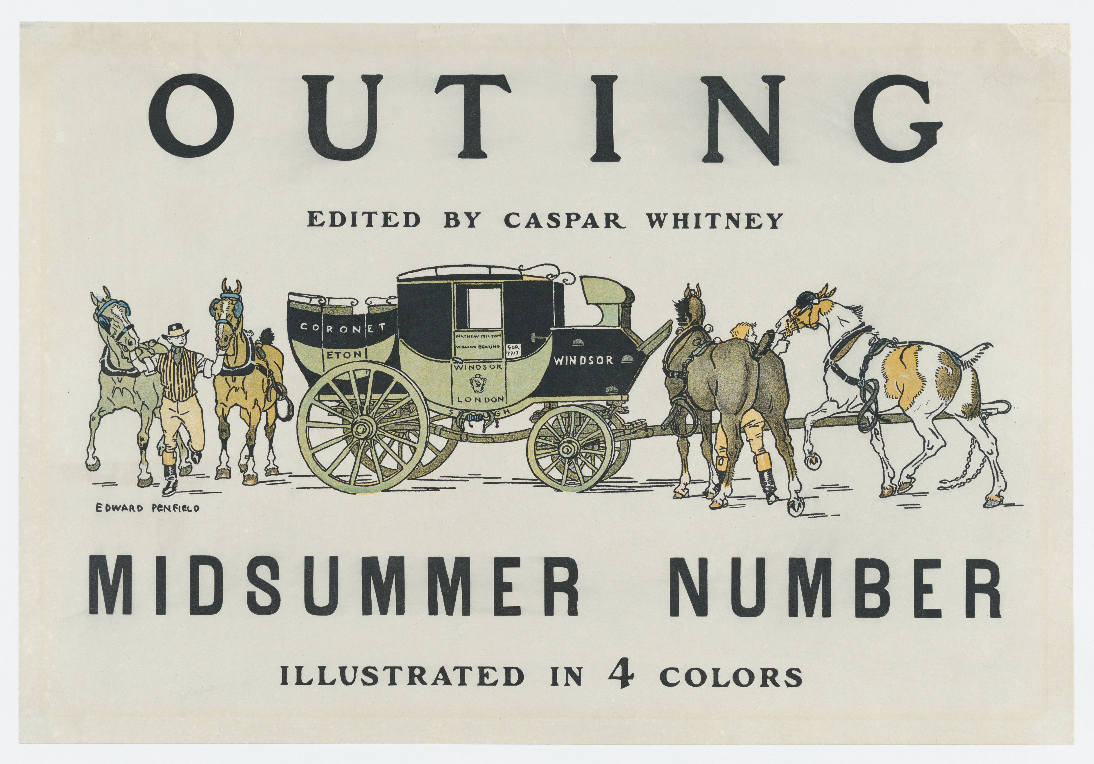 Print; Prints